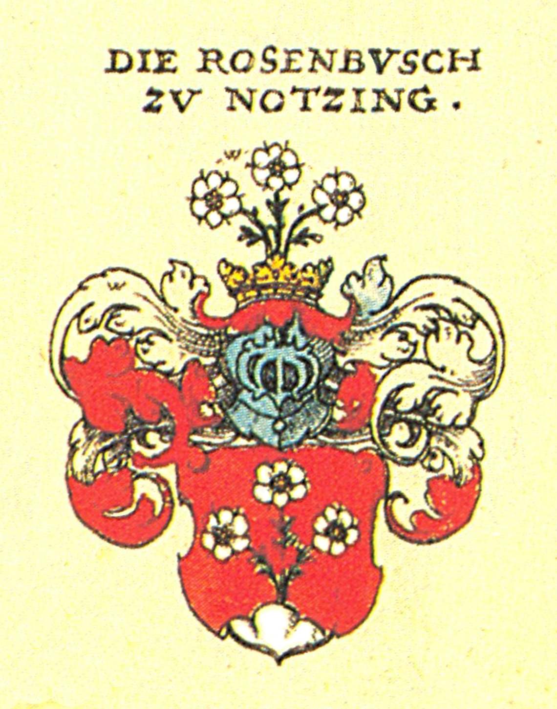 Coat of arms of Rosenbusch zu Notzing